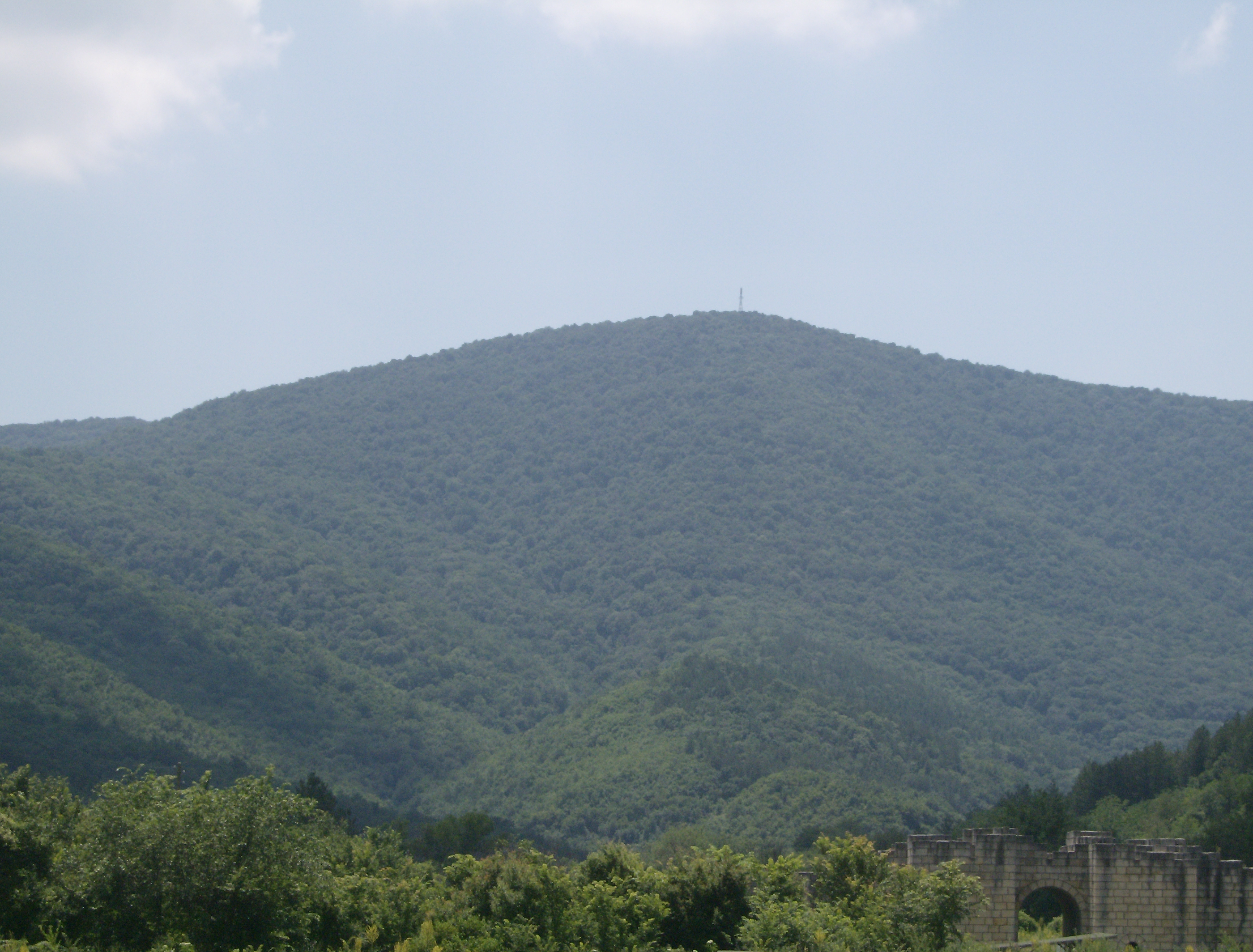 Preslav Fortress